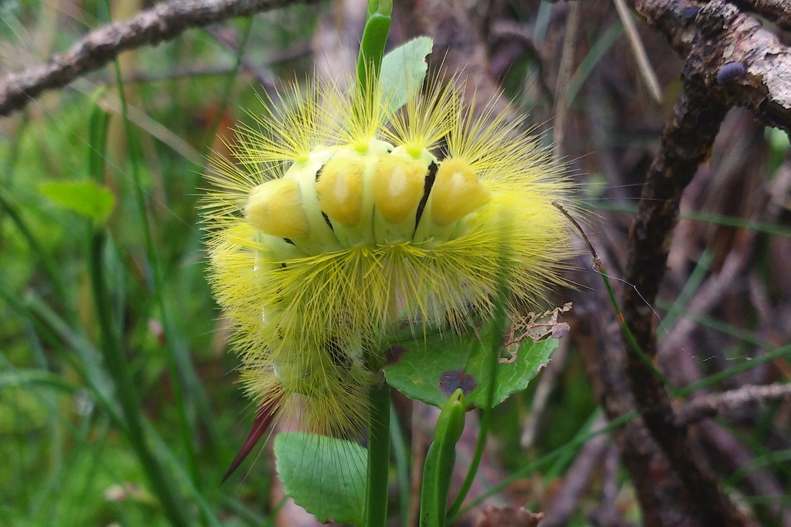 Calliteara pudibunda - pale tussock moth in Mikołeska, Poland.